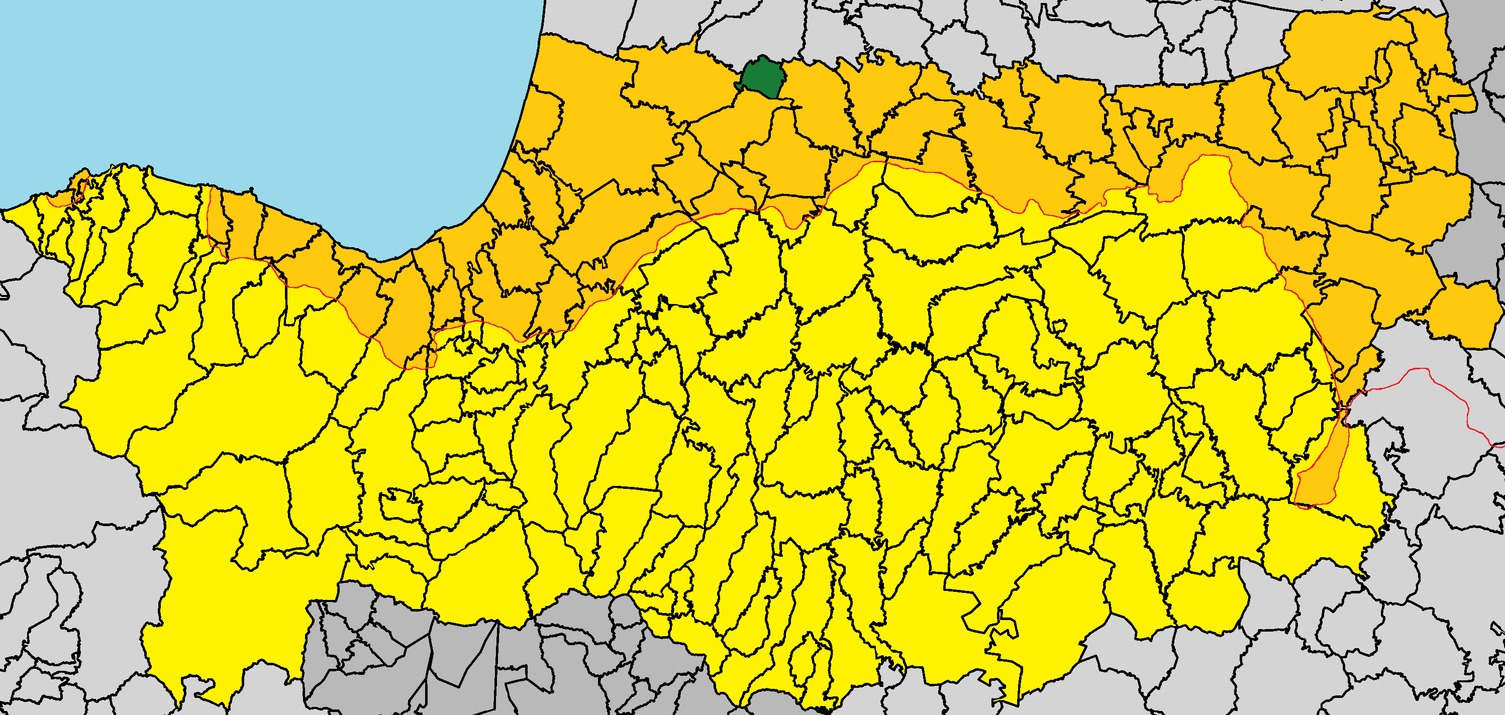 Dyo Potamoi in Nicosia District (de jure).